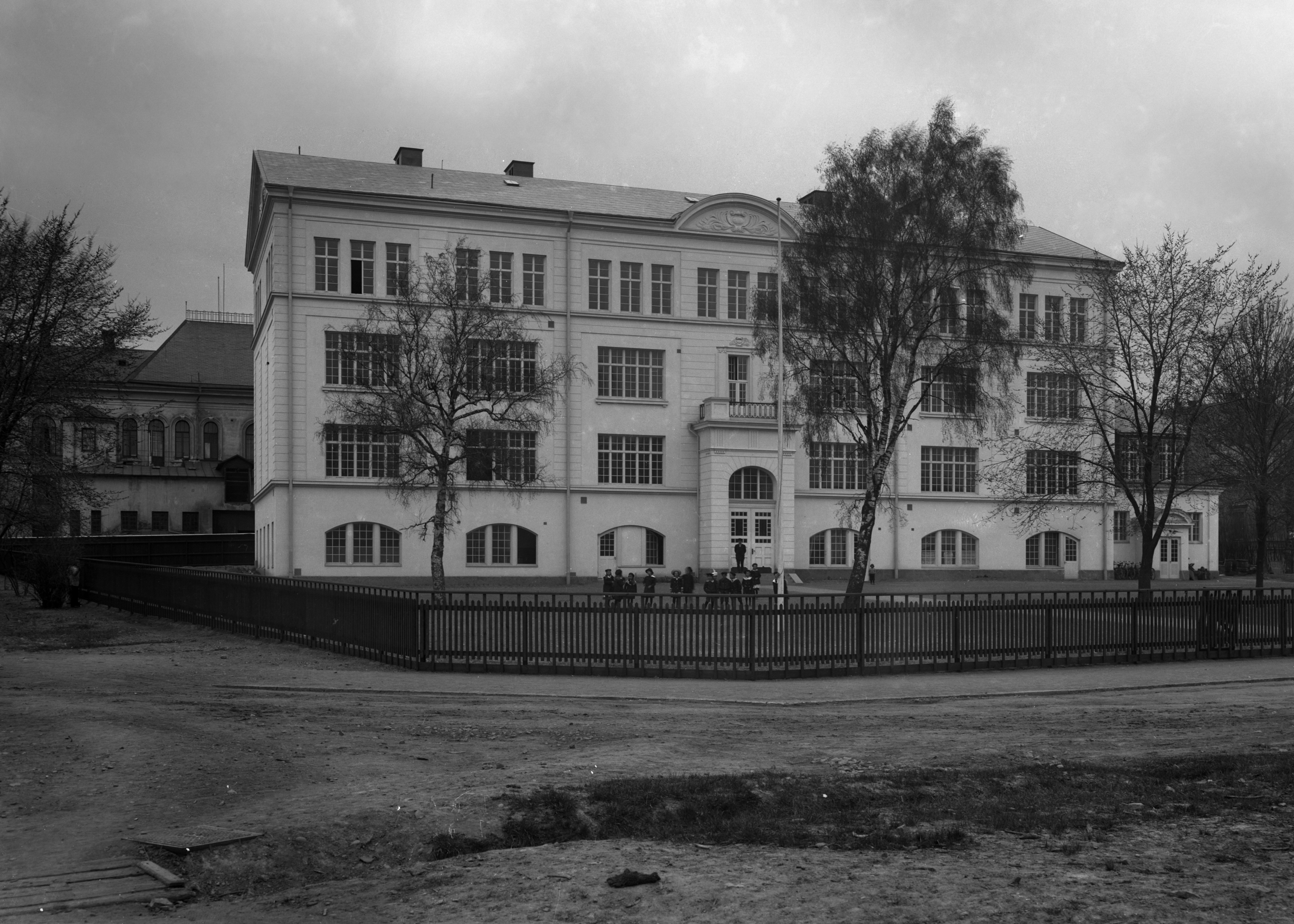 Flickskolan ca 1915 med gymnastiksal anslutande till norra gaveln.